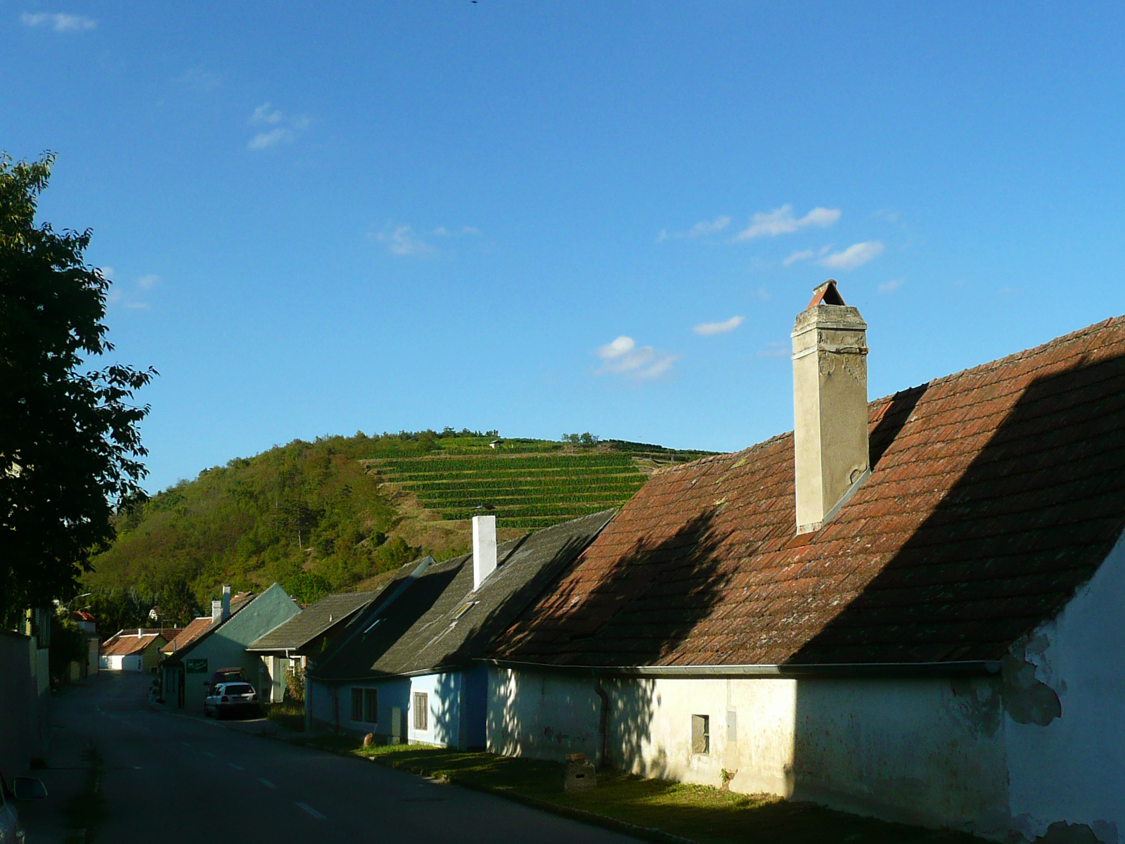 Low houses and vineyards